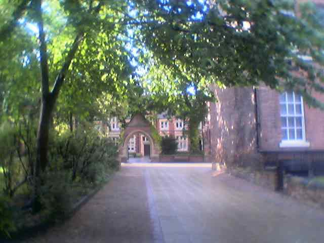 An example of the Nokia 7650 outdoors in a well lit environment.